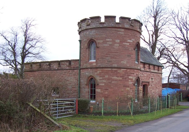 A Lodge or Toll at Cardew. Uncertain about this but it has made a lovely house.